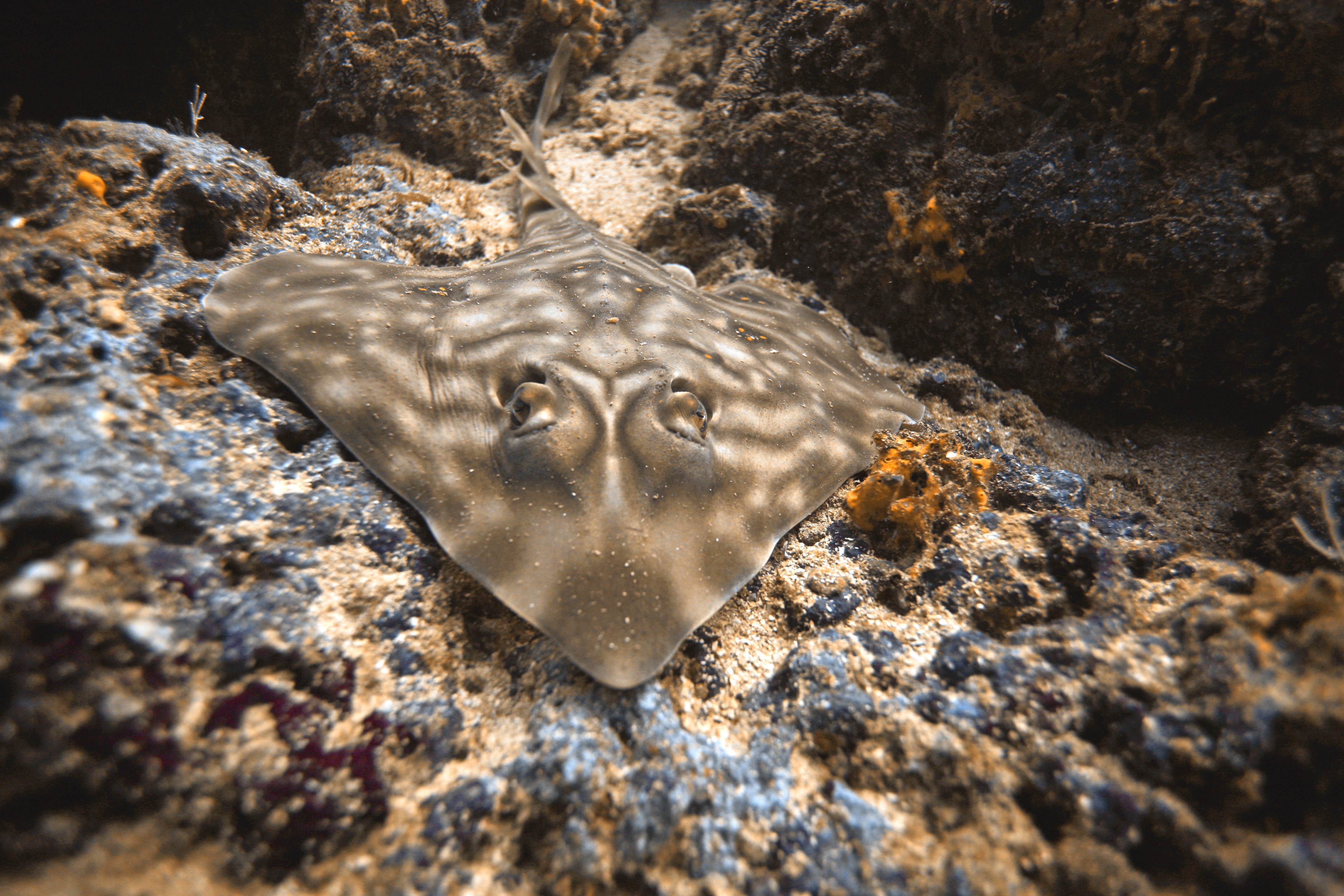 Zapteryx xyster near Isla Canales de Afuera at Faro (Lighthouse) dive site, Coiba National Park, Panama.